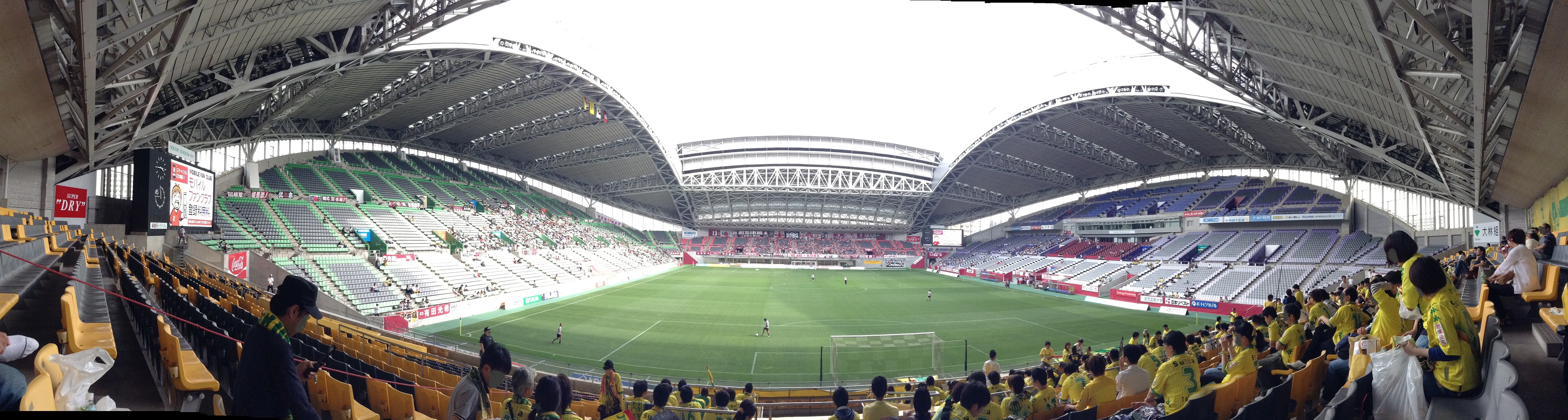 The panoramic photograph of Misaki Park Stadium. J. League Division 2 , Vissel Kobe vs JEF United Ichihara Chiba , 8 June, 2013.